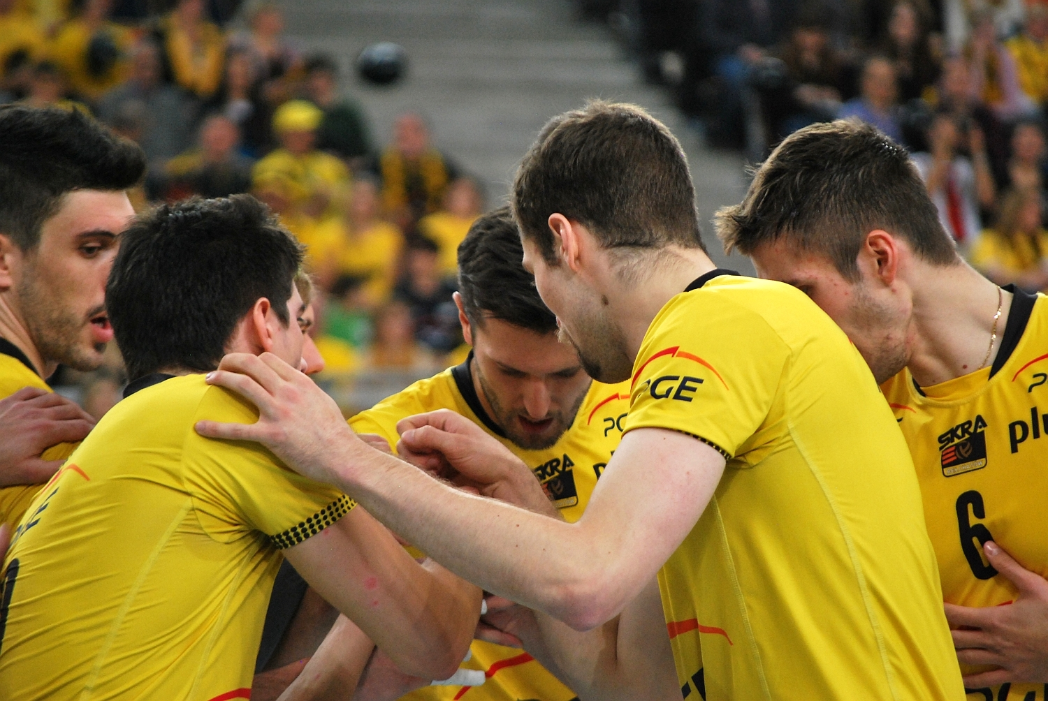 Skra Bełchatów huddle